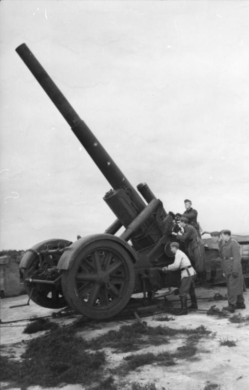 Information added by Wikimedia users.